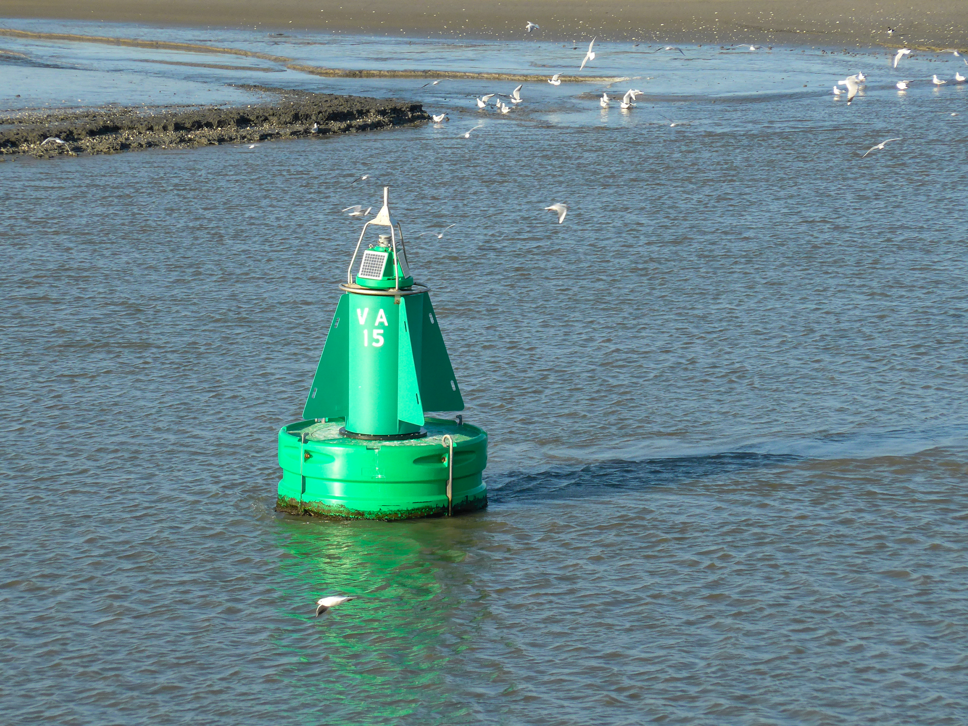 Buoy VA 15 on the Veerbootroute Ameland in the Wadden Sea between the Dutch ports of Holwerd and Ameland.